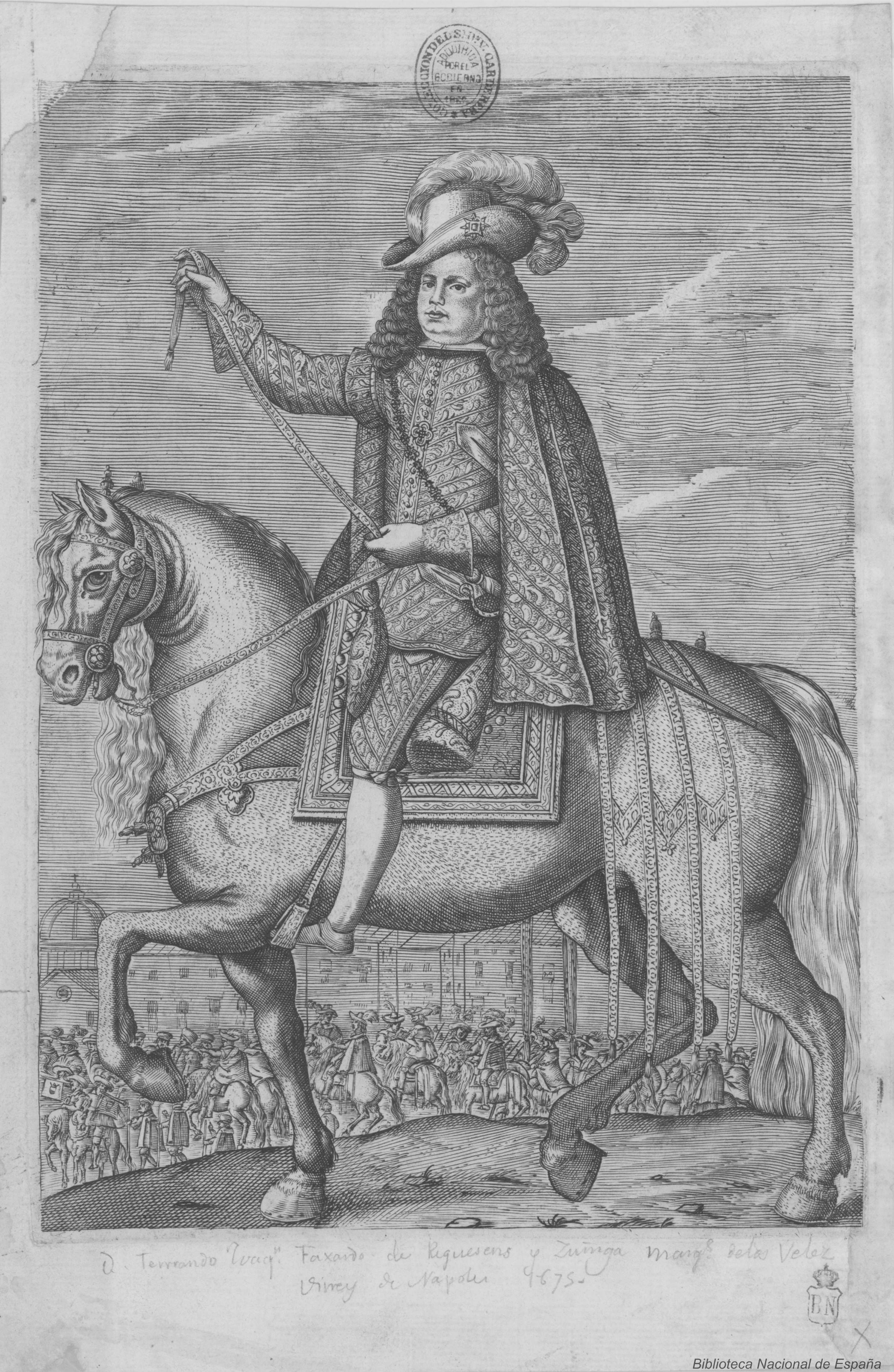 Don Fernando Joaquín Fajardo, marqués de los Vélez, en un retrato ecuestre.